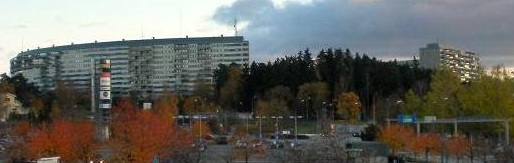 Grindtorp Building (apartments), Täby, Sweden